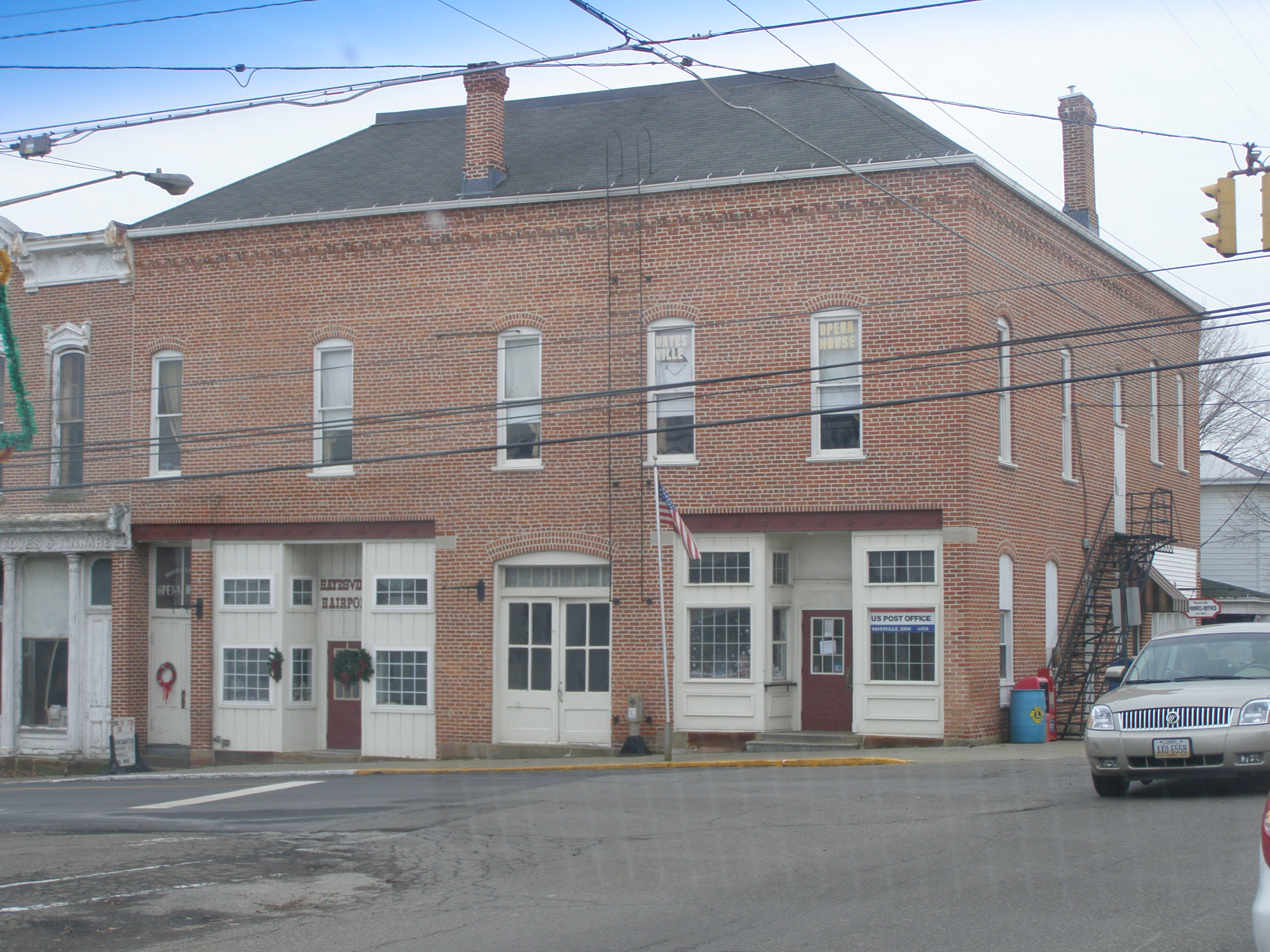 Intersection of S.R. 60 and S.R. 430, Hayesville, Ohio